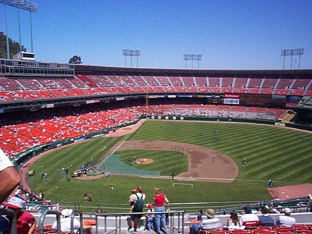 For Mark Athitakis' birthday, we went to the 'Stick for a Giants game